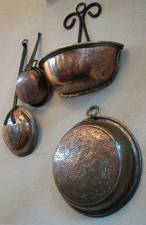 Old copper utensils displayed in a Jerusalem restaurant.